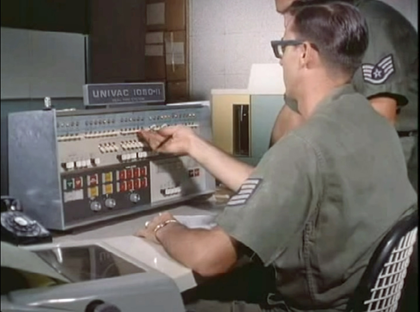 Console of the UNIVAC 1050-II, made for the US Air Force